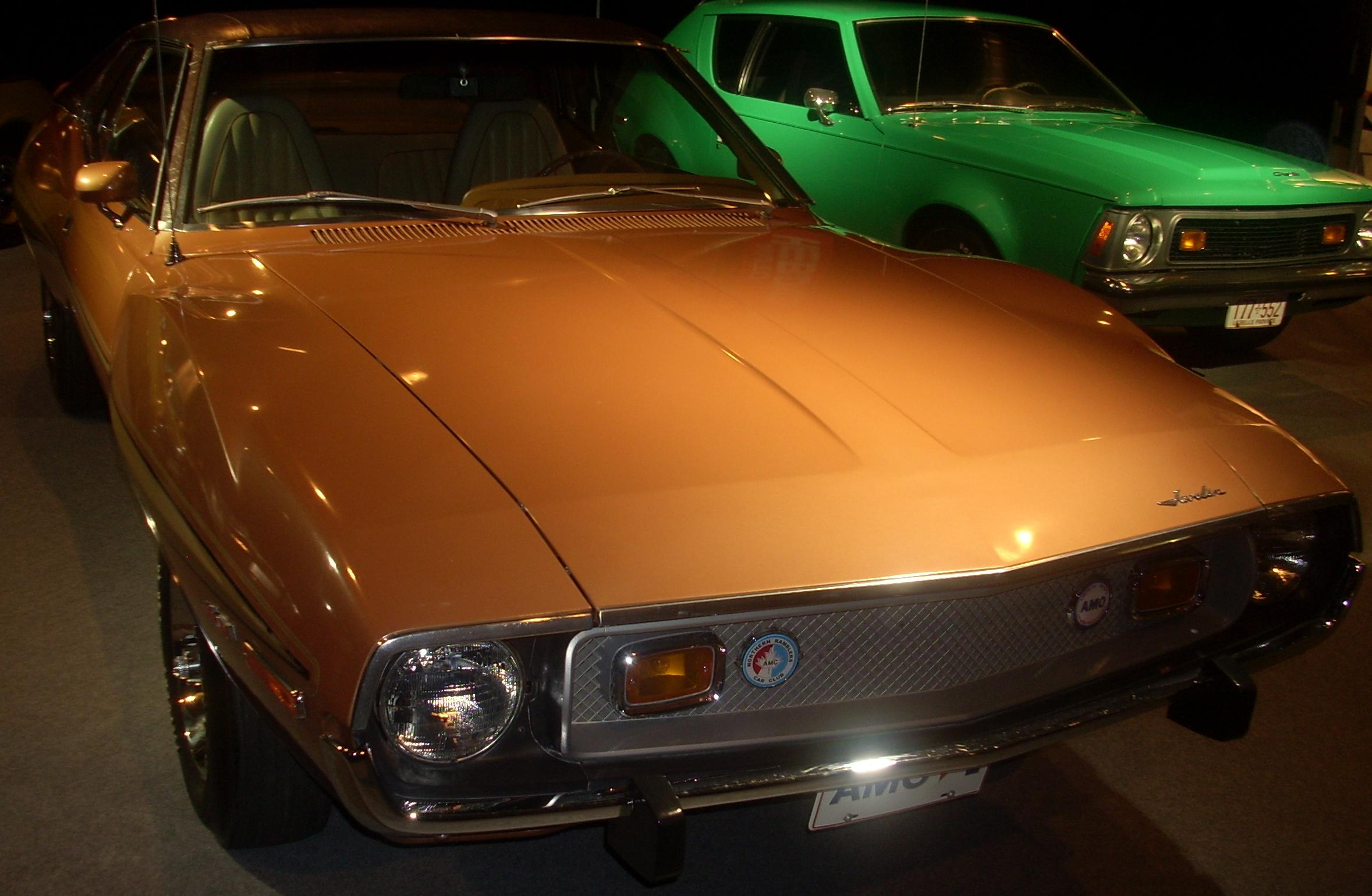 1973 AMC Javelin photographed at the 2009 Montreal International Auto Show.